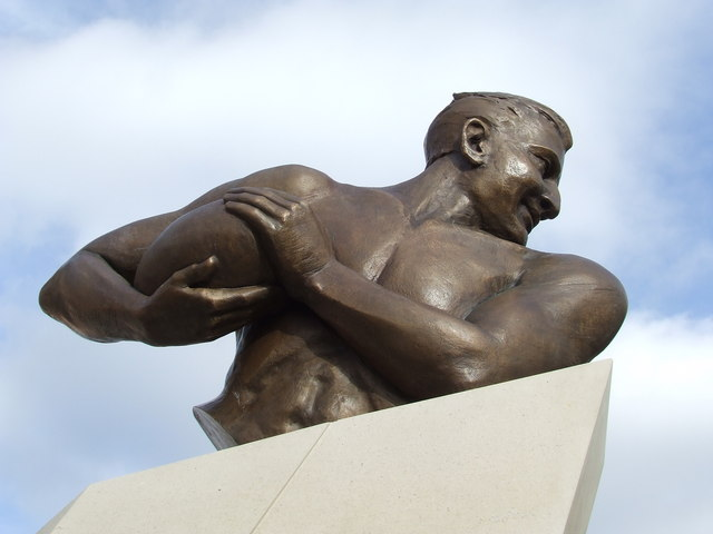 England Rugby Legend Prince Alexander Obolensky Statue to England rugby legend and pilot Prince Alexander Obolensky. For more info and Alexander_Obolensky and for overall view see 1181200